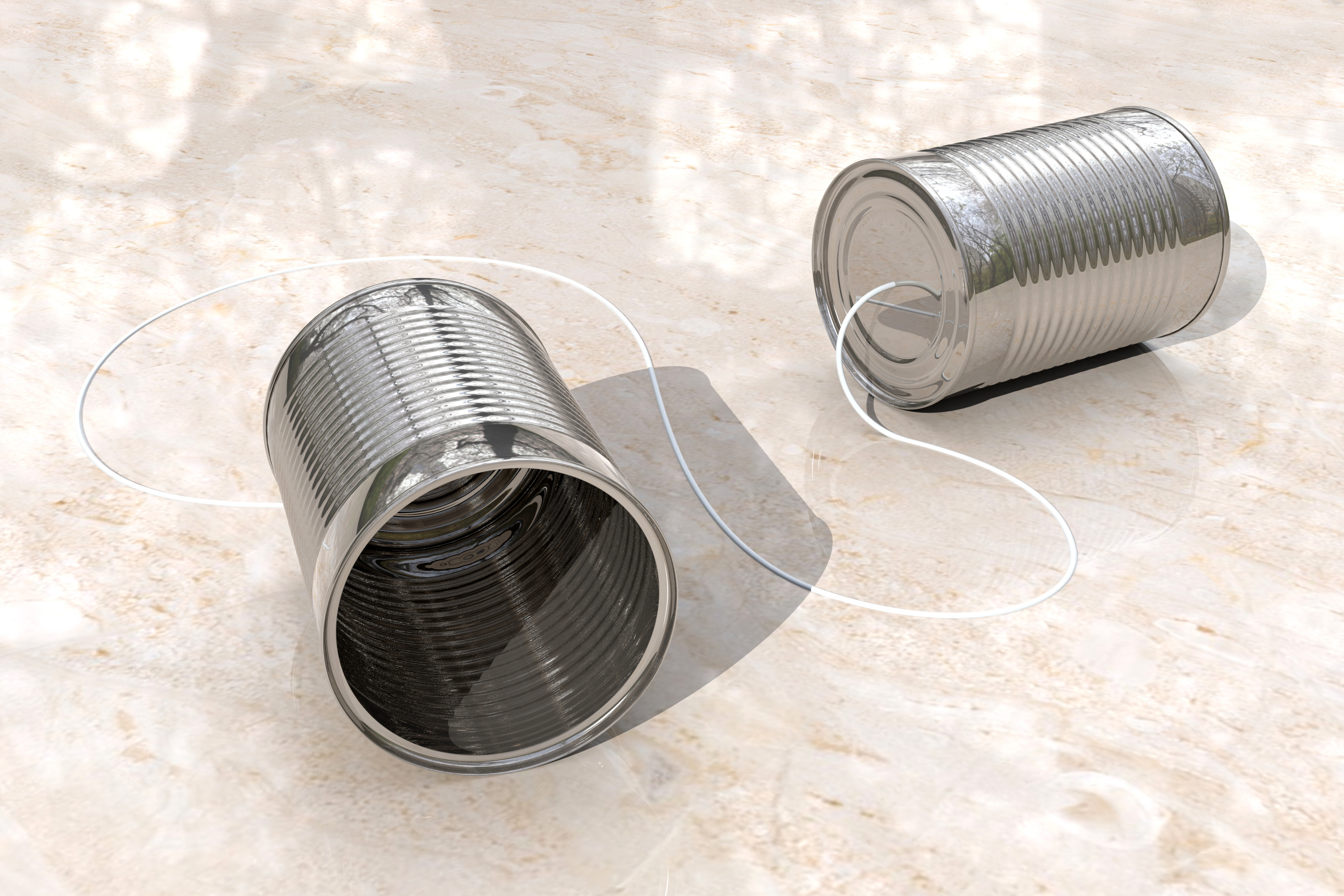 3d tin can phones